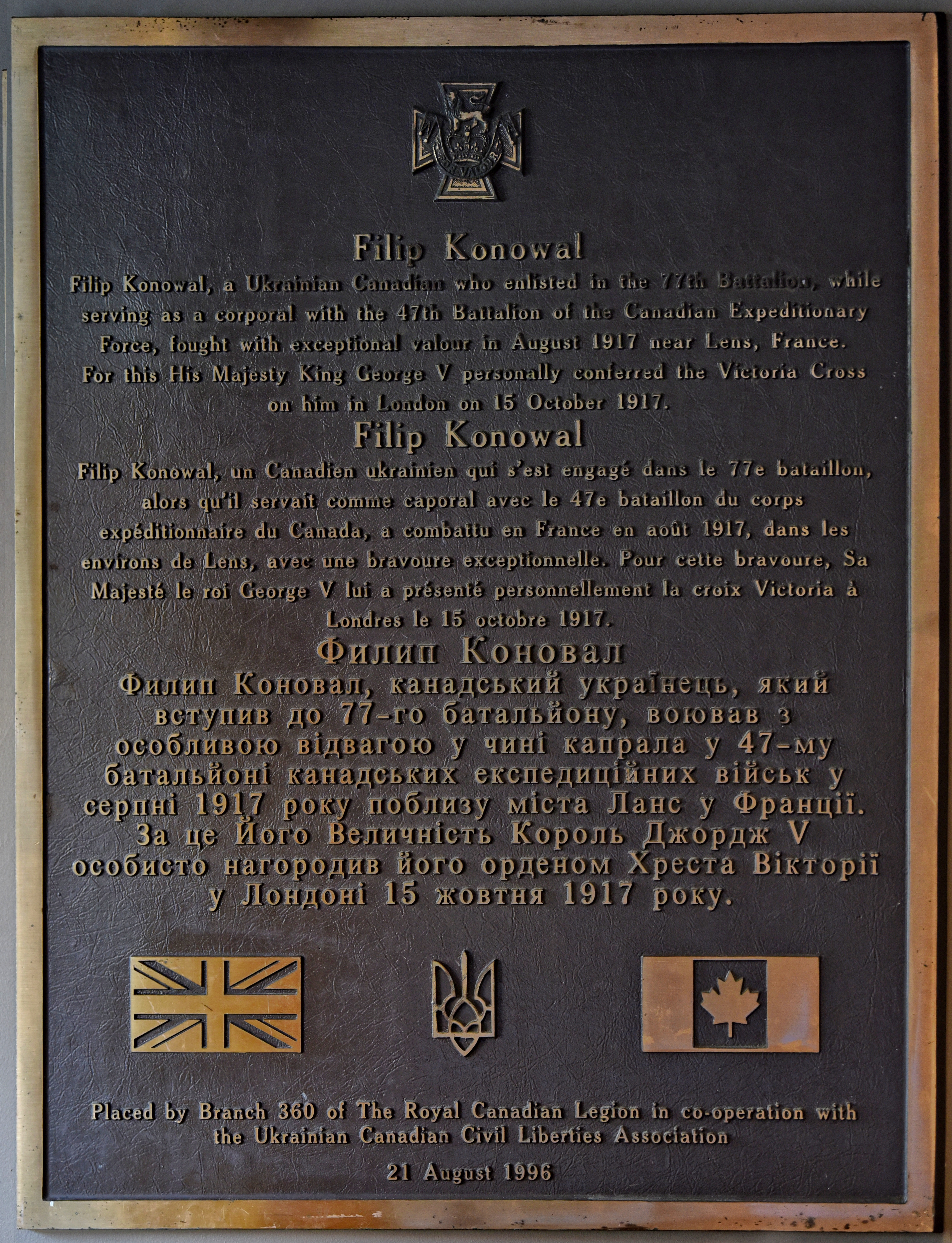 Memorial plaque to Filip Konowal, installed i1996 in the Branch 360 of The Royal Canadian Legion and reinstalled in 2017 in St Vladimir Institute in Toronto